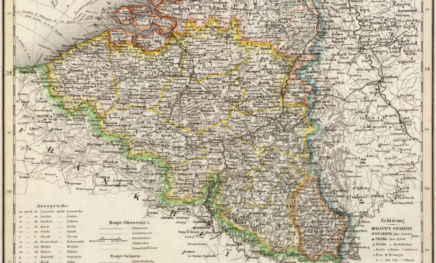 Belgium 1844, cut of a map of Meyers Handatlas 1860